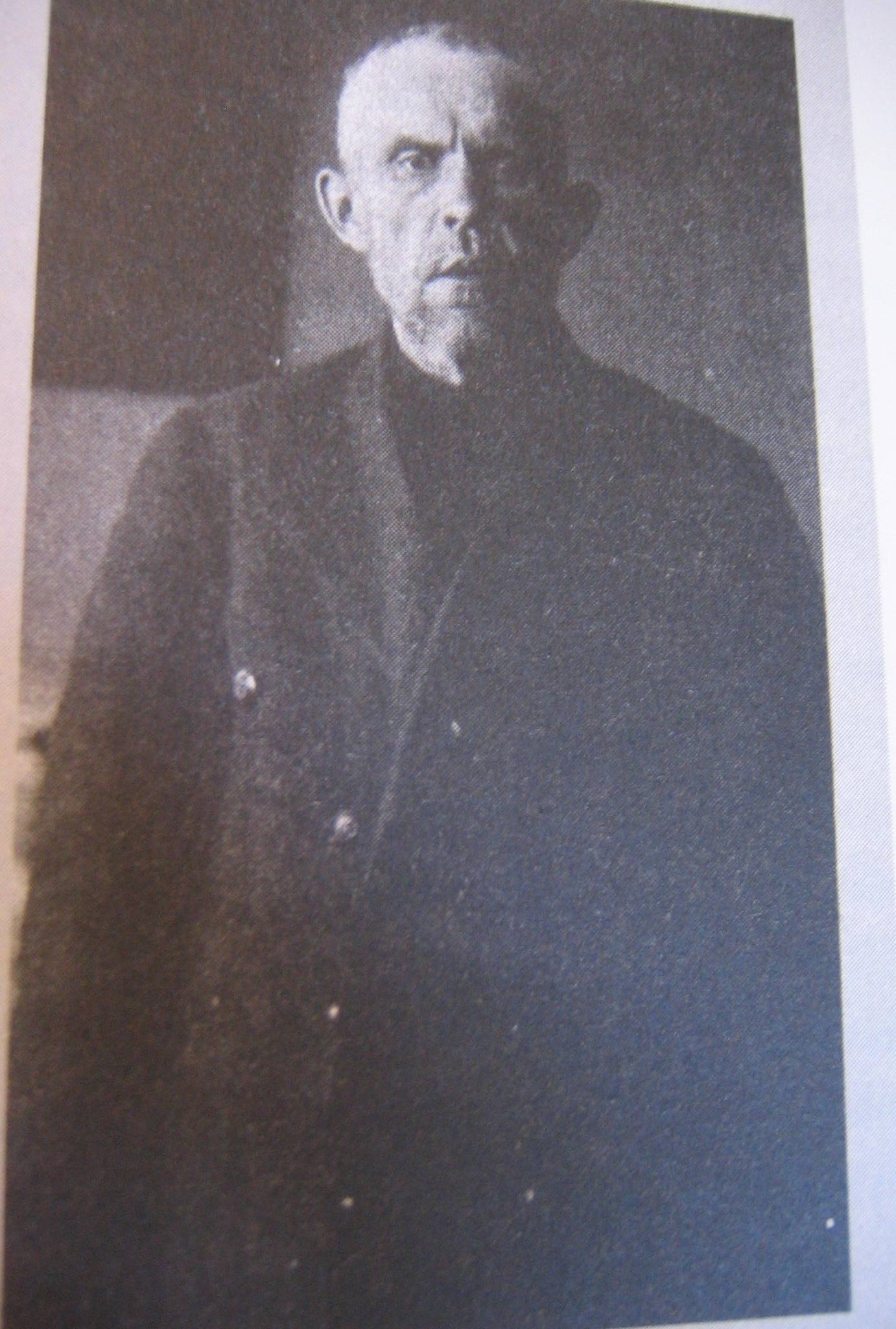 Finnish red comissar Valter Vihriä